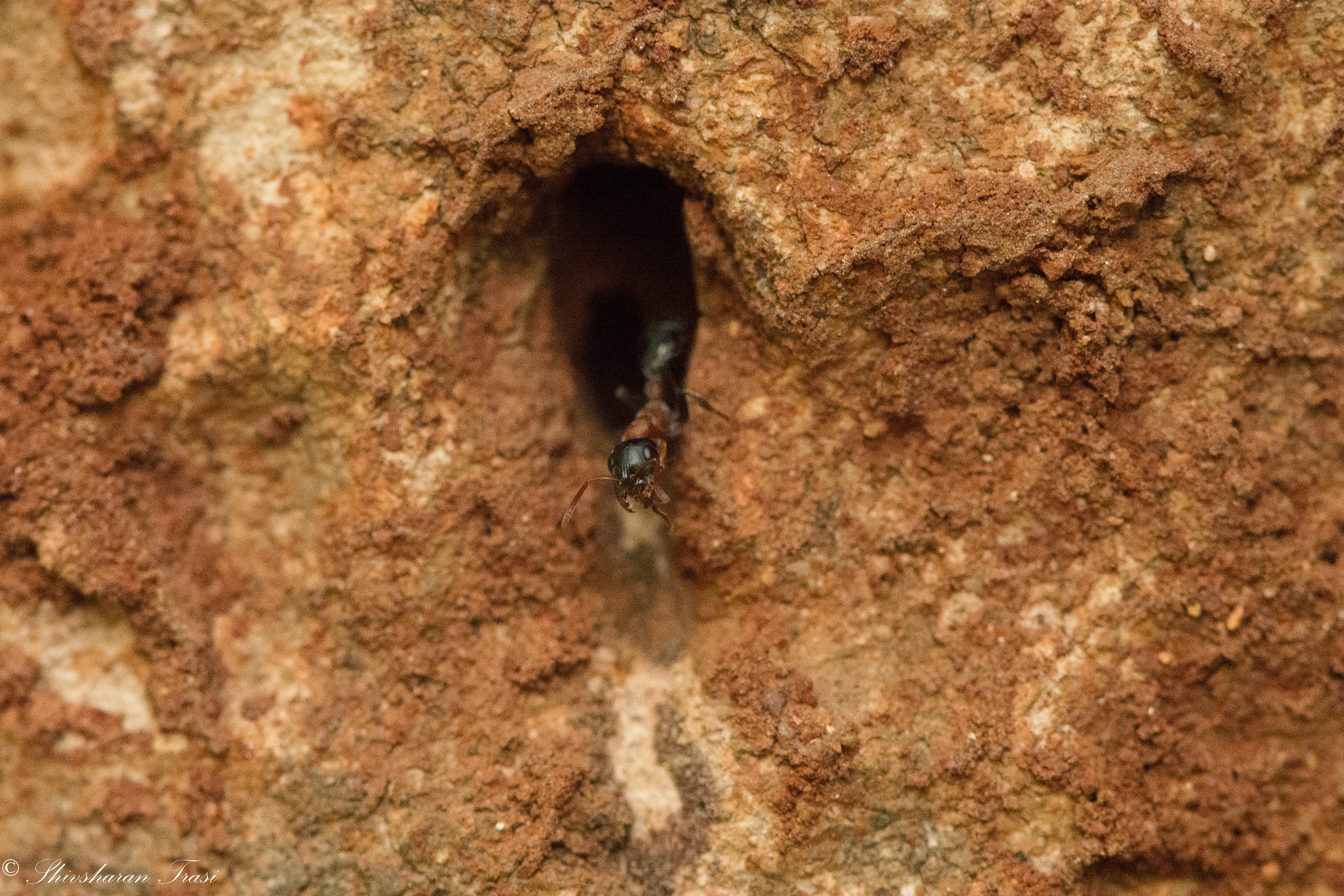 Tetraponera Rufonigra build their nests in excavated holes in dried parts of trees